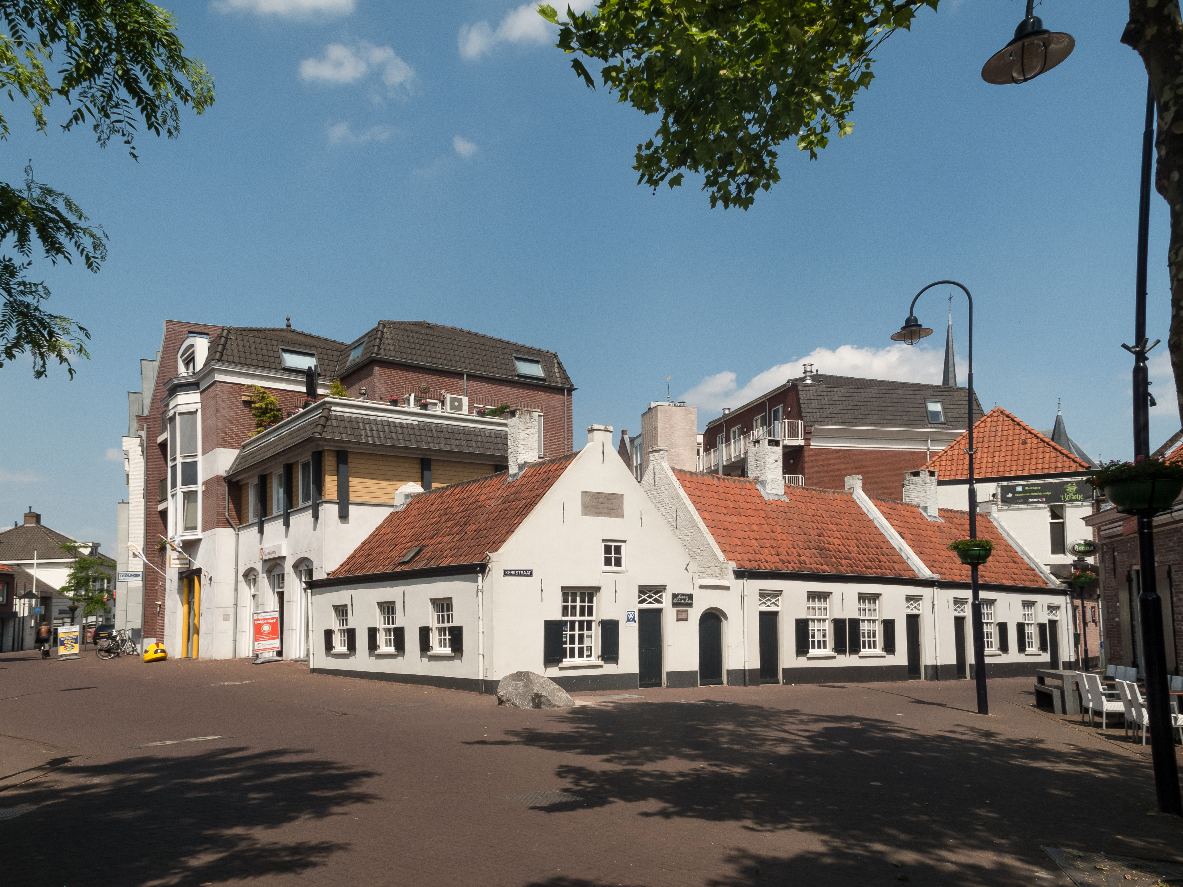 Sint Oedenrode, monumental buidling former Sint Paulus gasthuis